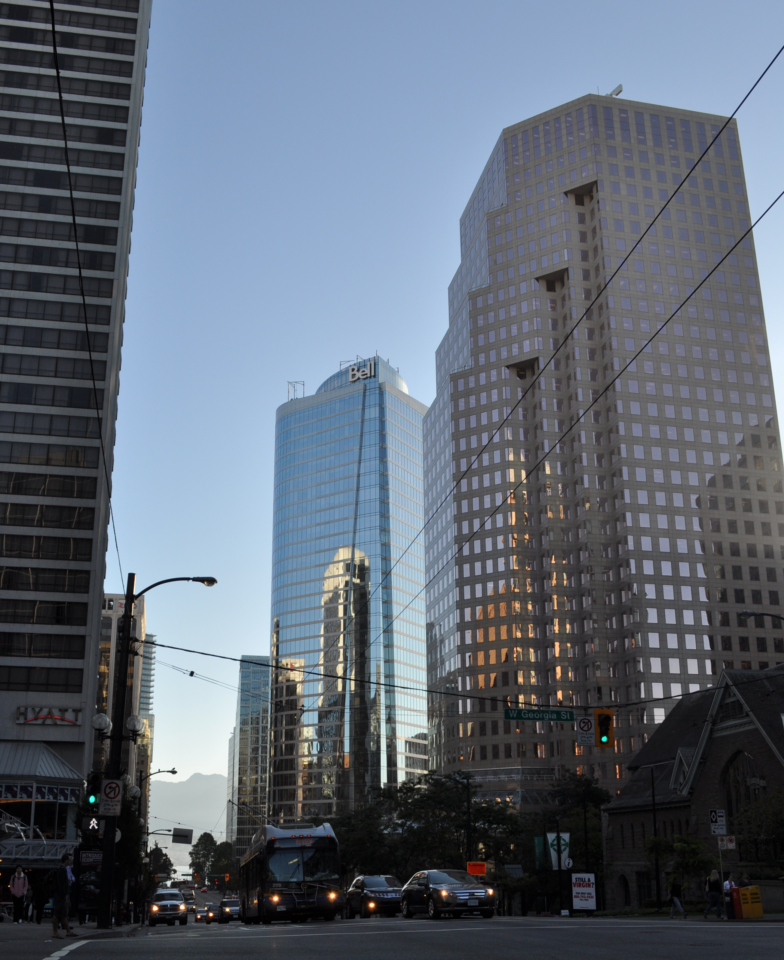 Looking north on Burrard Street from Georgia Street, Vancouver, BC.